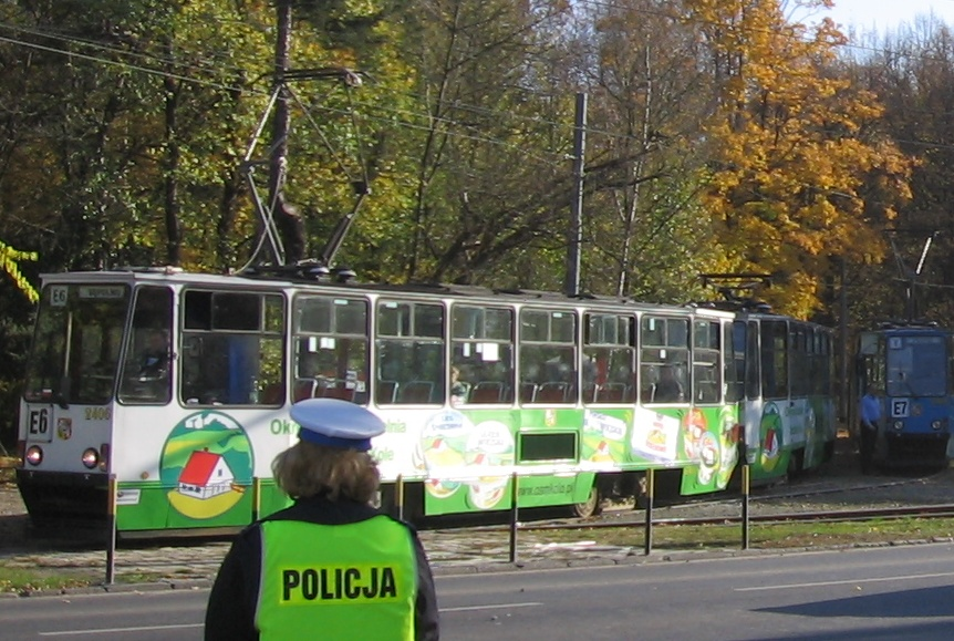 Wrocław, Poland: November 1st, special tramway lines near Grabiszynek necropolis